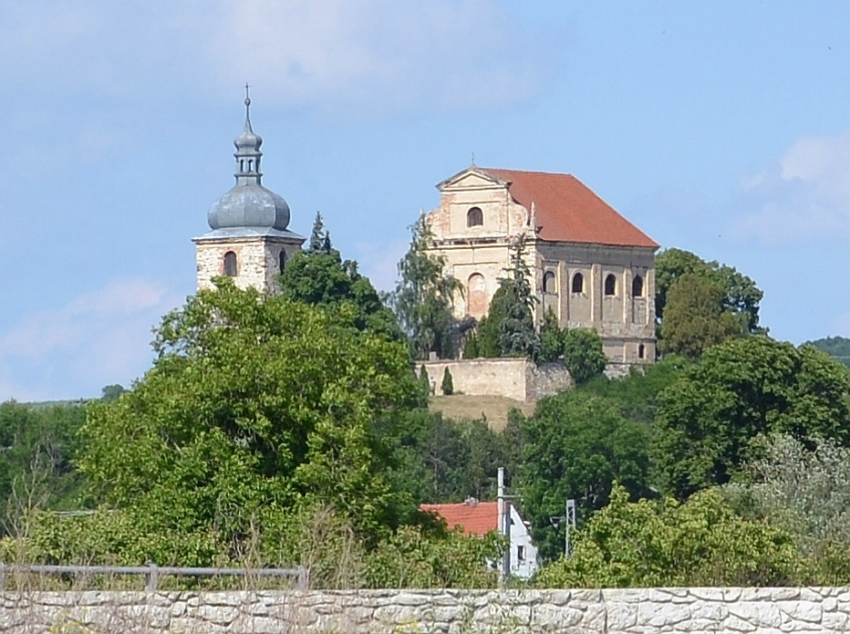 Trinity Church and bell tower, Křešice-Zahořany, Ústí nad Labem region, Czech Republic.